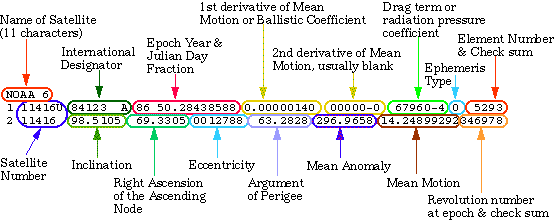 Two Lines Element description